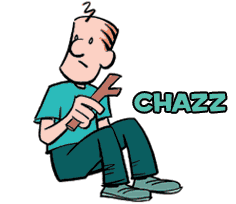 Chazz.png